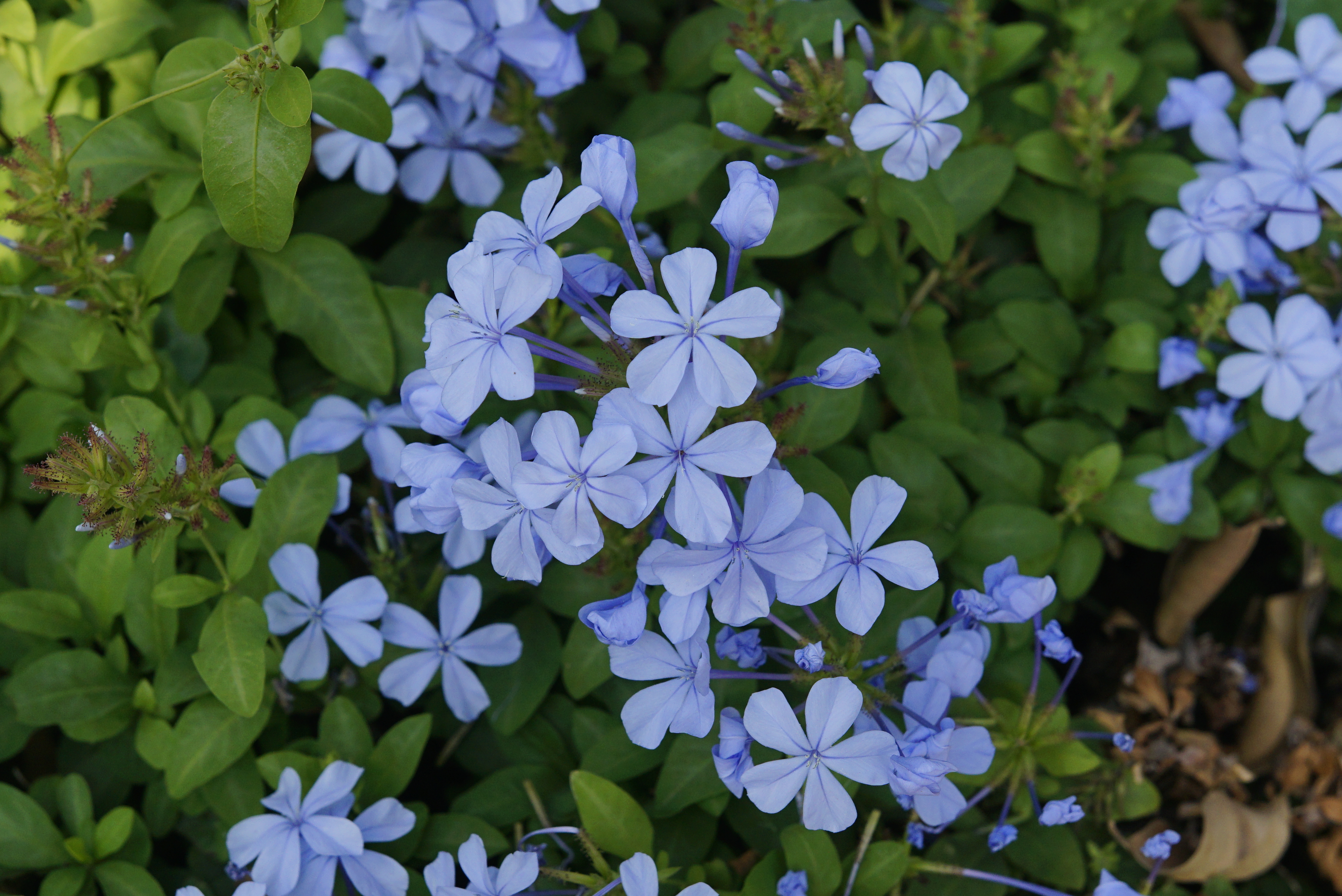 Blue plumbago (Plumbago auriculata), Bangalore, India.